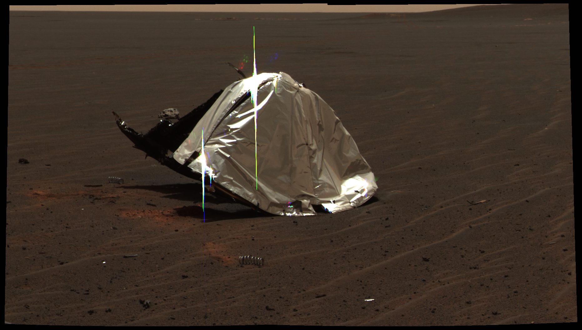 This image from the panoramic camera on NASA's Mars Exploration Rover Opportunity features the remains of the heat shield that protected the rover from temperatures of up to 2,000 degrees Fahrenheit as it made its way through the martian atmosphere. This two-frame mosaic was taken on the rover's 335th martian day, or sol, (Jan. 2, 2005). The view is of the main heat shield debris seen from approximately 10 meters (about 33 feet) away from it. Many rover-team engineers were taken aback when they realized the heat shield had inverted, or turned itself inside out. The height of the pictured debris is about 1.3 meters (about 4.3 feet). The original diameter was 2.65 meters (8.7 feet), though it has obviously been deformed. The Sun reflecting off of the aluminum structure accounts for the vertical blurs in the picture. The fact that the heat shield is now inside out makes it more challenging to evaluate the state of the thermal protection system that is now on the inside. In coming sols, Opportunity will investigate the debris with its microscopic imager. Engineers who designed and built the heat shield are thrilled to see the hardware on the surface of Mars. This provides a unique opportunity to look at how the thermal protection system material survived the actual Mars entry. Team members hope this information will allow them to compare their predictions to what really happened. This is an approximately true-color rendering, generated using the panoramic camera's 600, 530 and 480 nanometer filters.